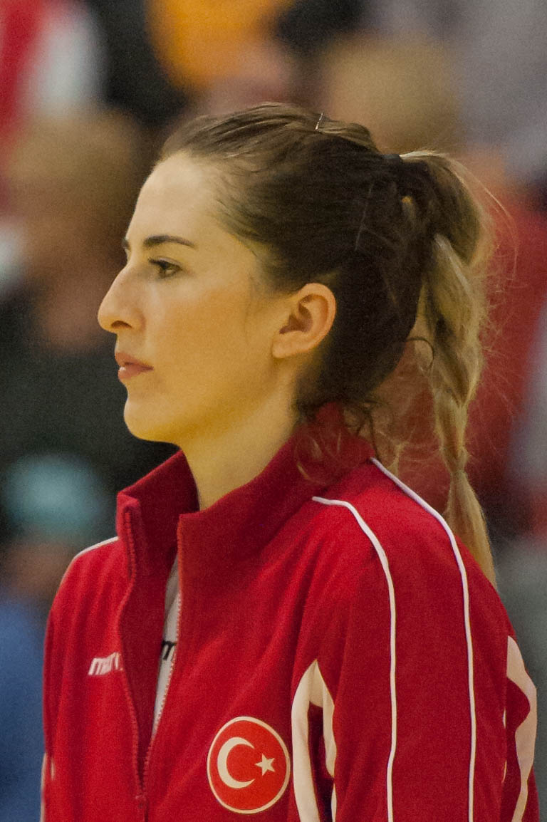 2015 World Women's Handball Championship Qualification 2014-12-06: Diğdem Hoşgör